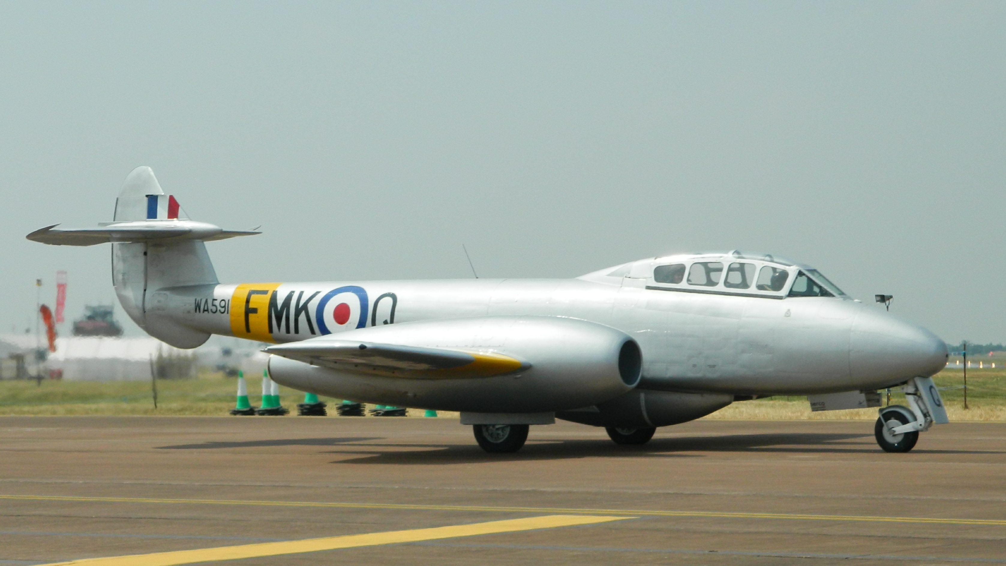 A1949-built Gloster Meteor T7 jet trainer registred in the United Kingdom as G-BWMF and painted as "WA591" of the Royal Air Force departs RAF Fairford on the Royal International Air Tattoo departure day Monday 22 July 2013.